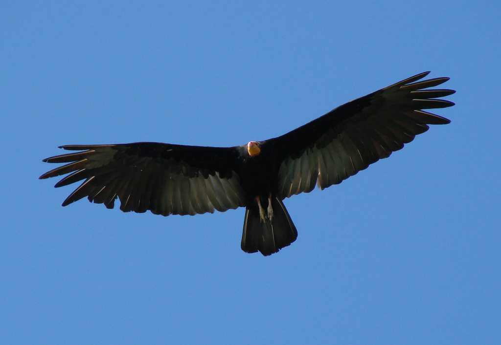 Urubu-da-mata/ Greater yellow-headed vulture (Cathartes melambrotus). Tucuruí, Pará.